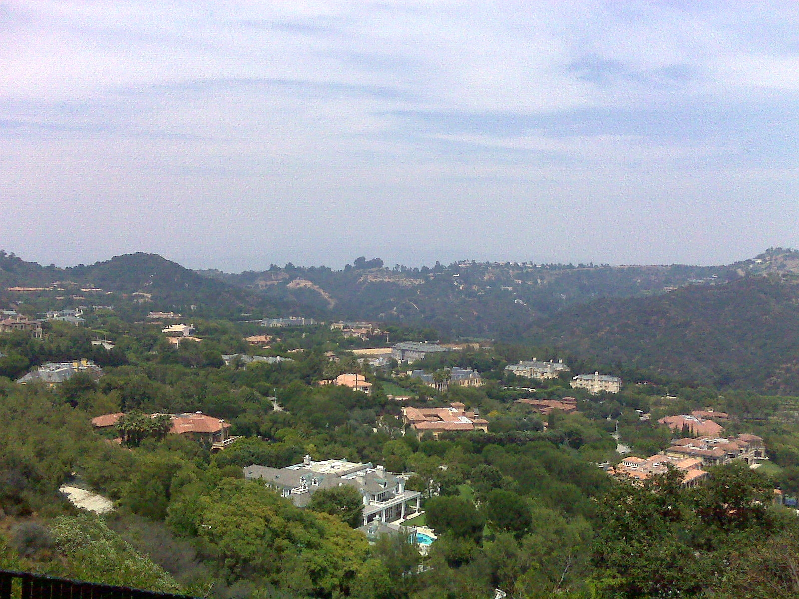 North Beverly Park Overlook taken from a public city street